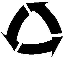 Logo of Van Veen, a motorcycle manufacturer from the 1970s.